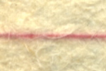 Closeup scan of Swiss stamp showing red silk thread in the paper, made by User:Stan Shebs